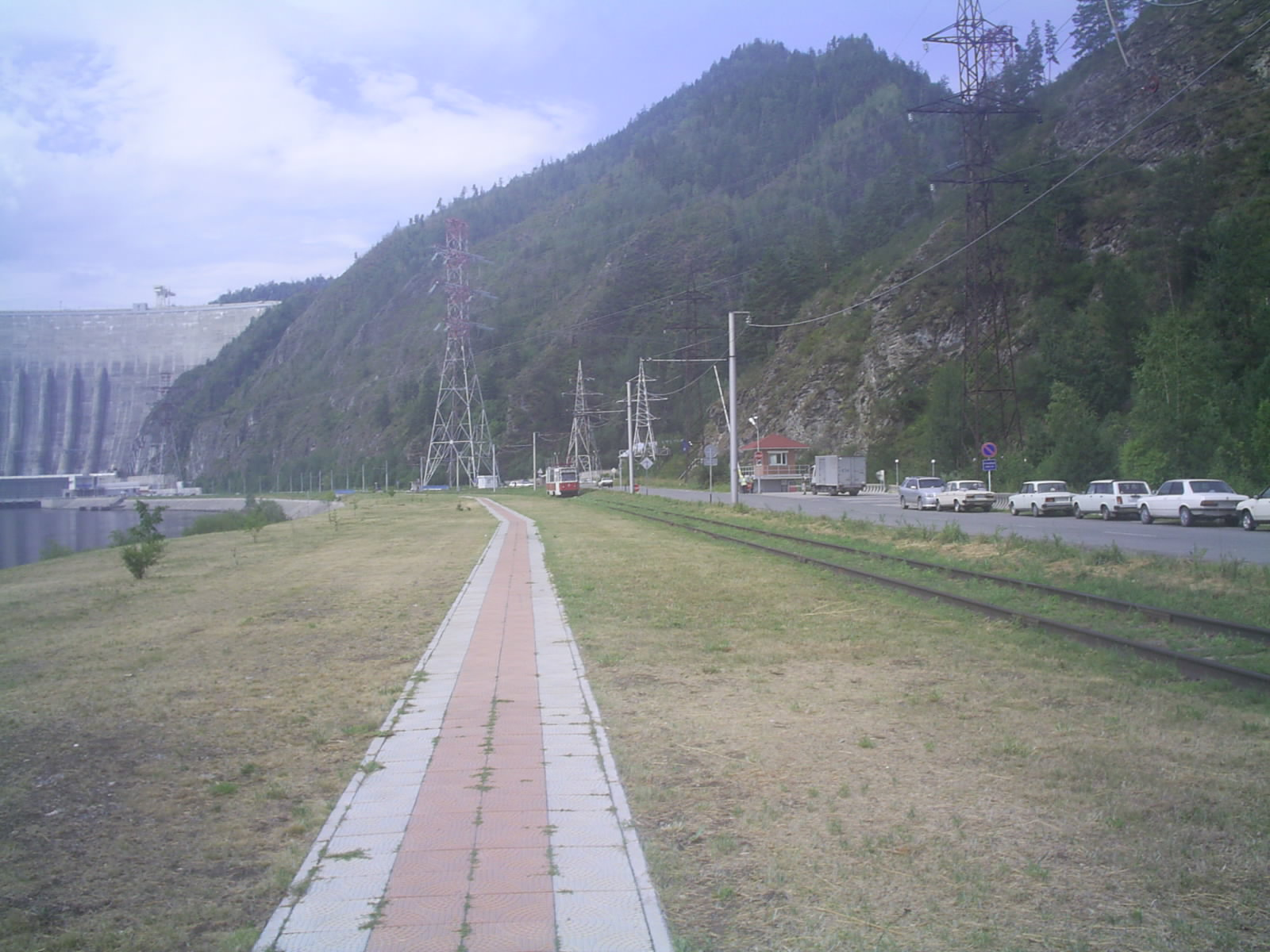 Tramway at Cheryomushki, Khakassia, in front of Sayano-Shushenskoye hydro-electric power station dam, 2007